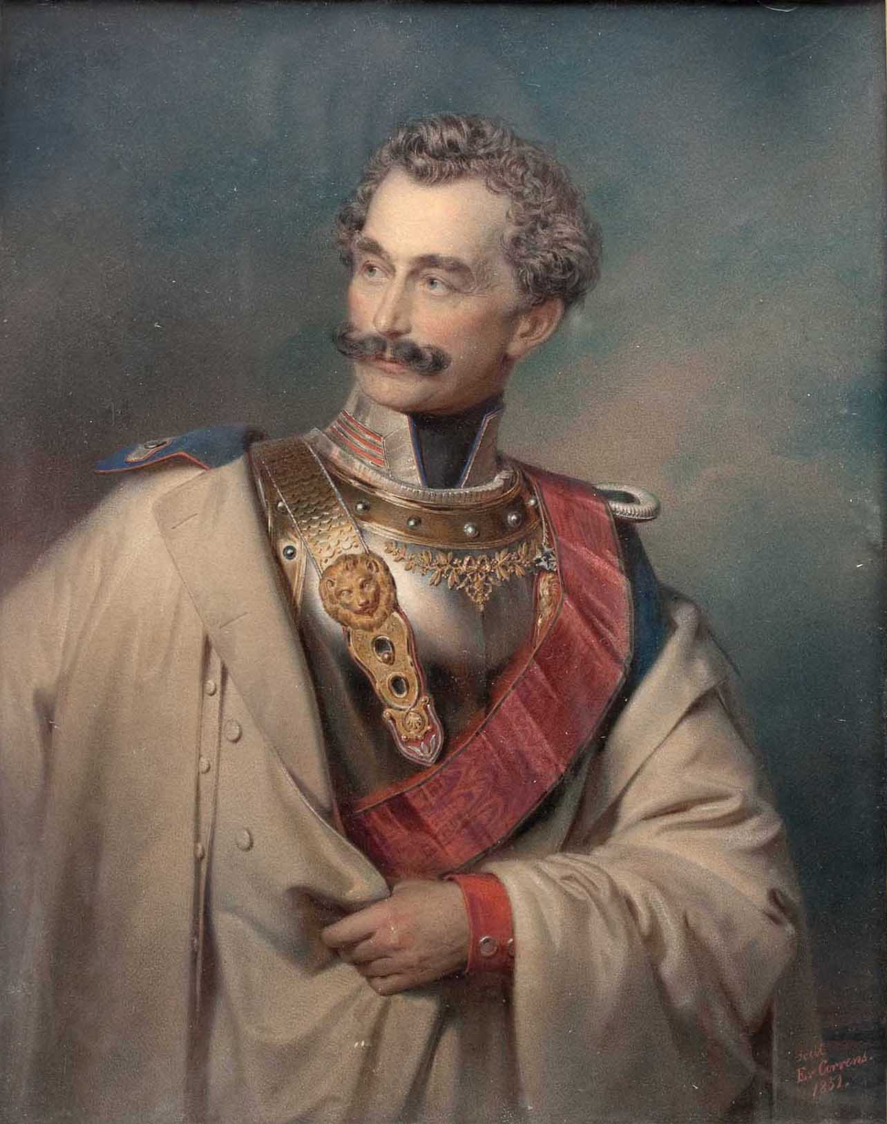 Prince Karl of Bavaria (1795 - 1875) a portrait by Erich Correns 1851